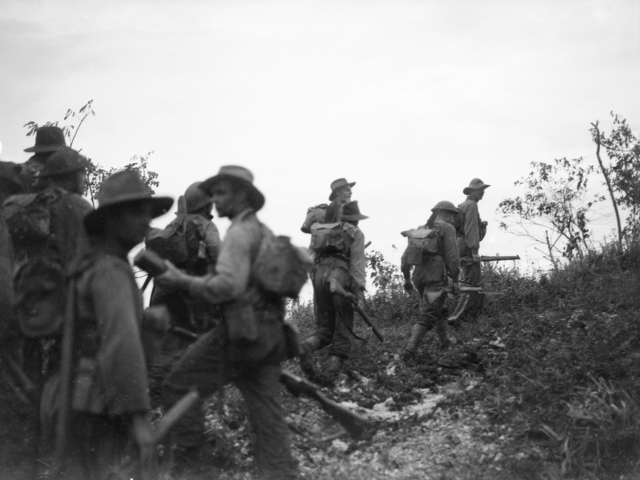 Australian soldiers from the 2/48th Battalion around Sattelberg, New Guinea, 17 November 1943